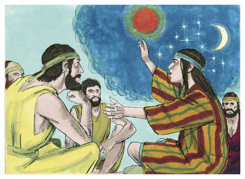 Biblical illustration of Book of Genesis Chapter 37